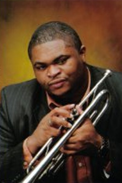 Trumpeter Carlos Redman